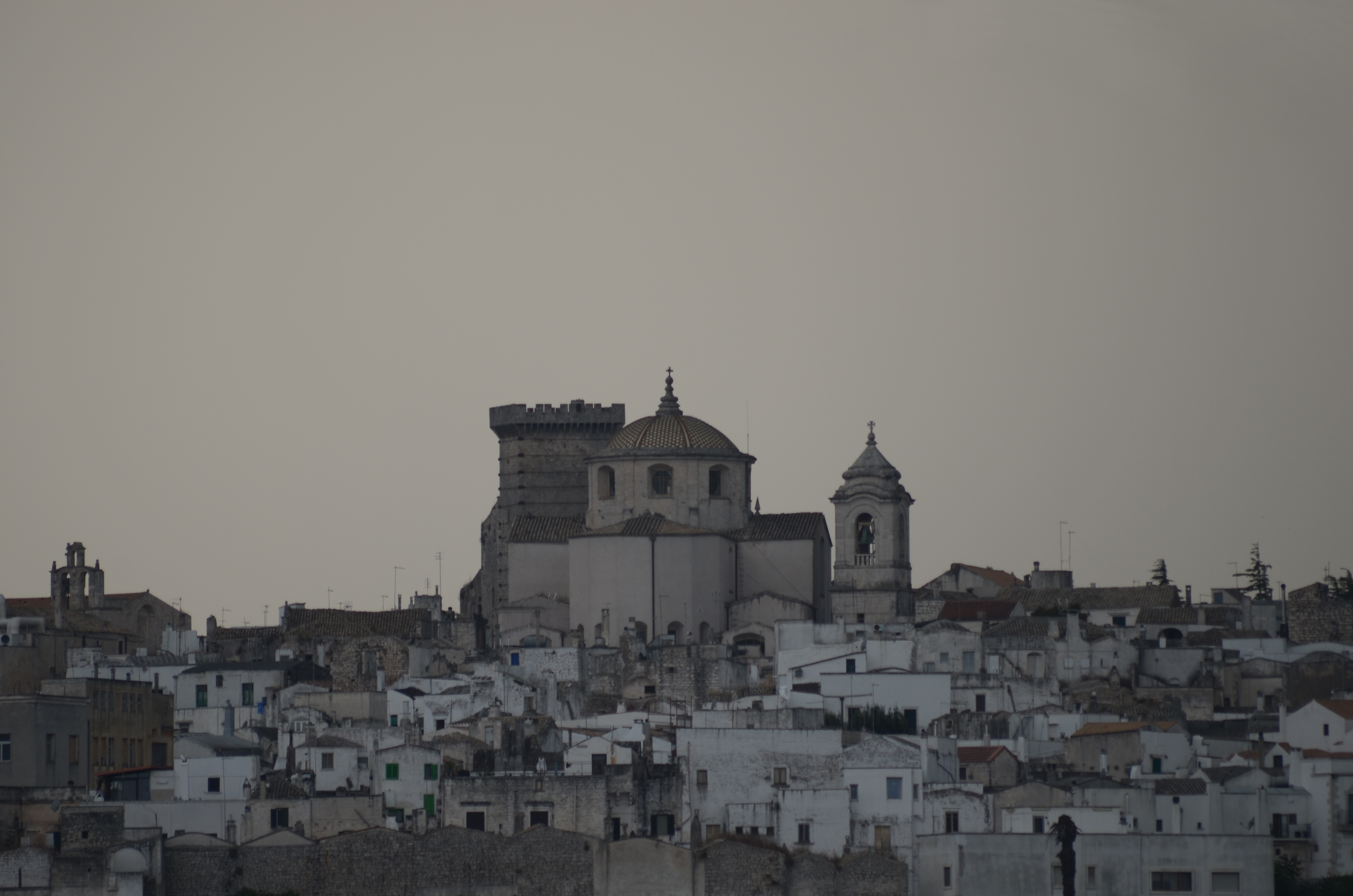 Ceglie Messapica